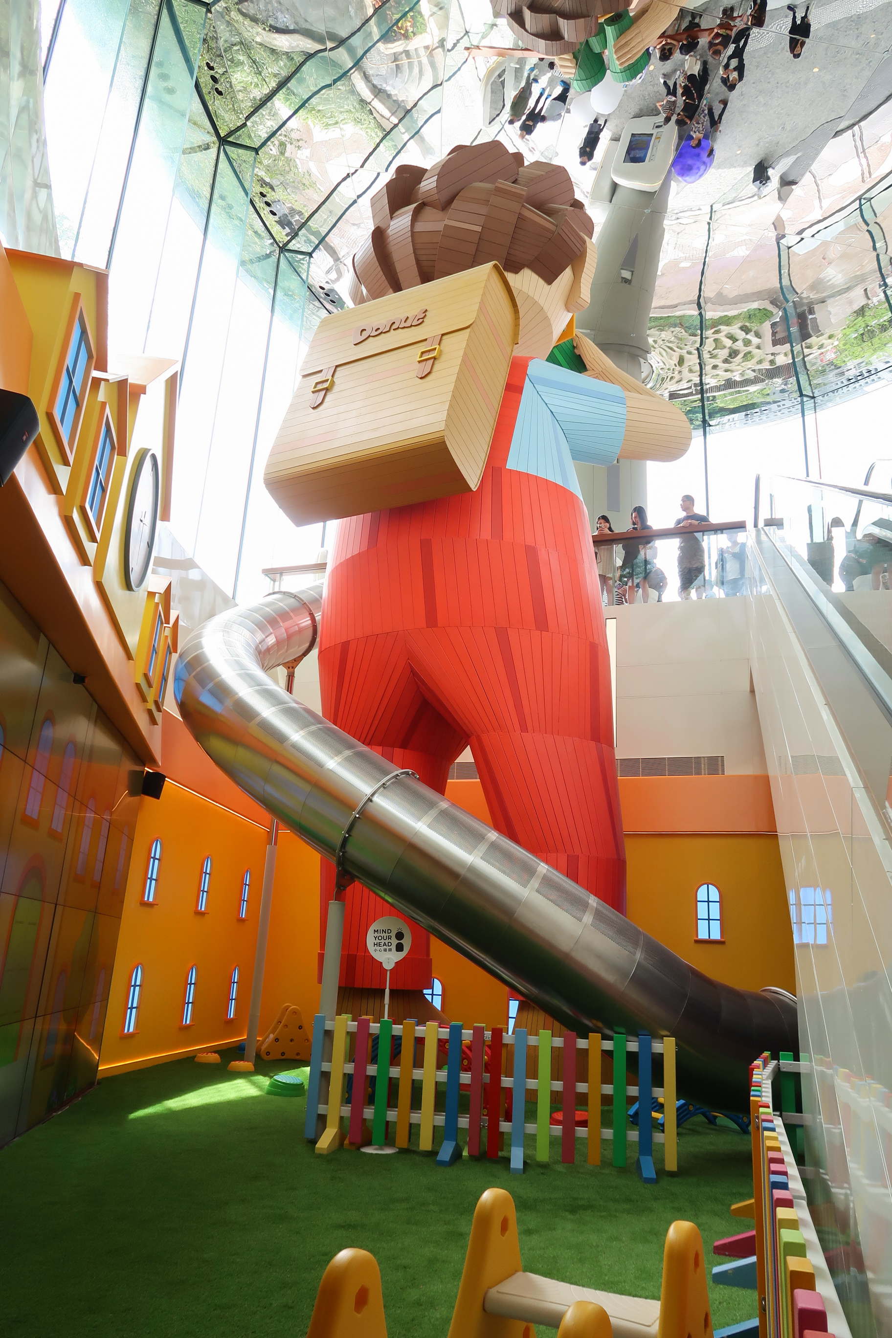 K11 MUSEA Donut Playhouse